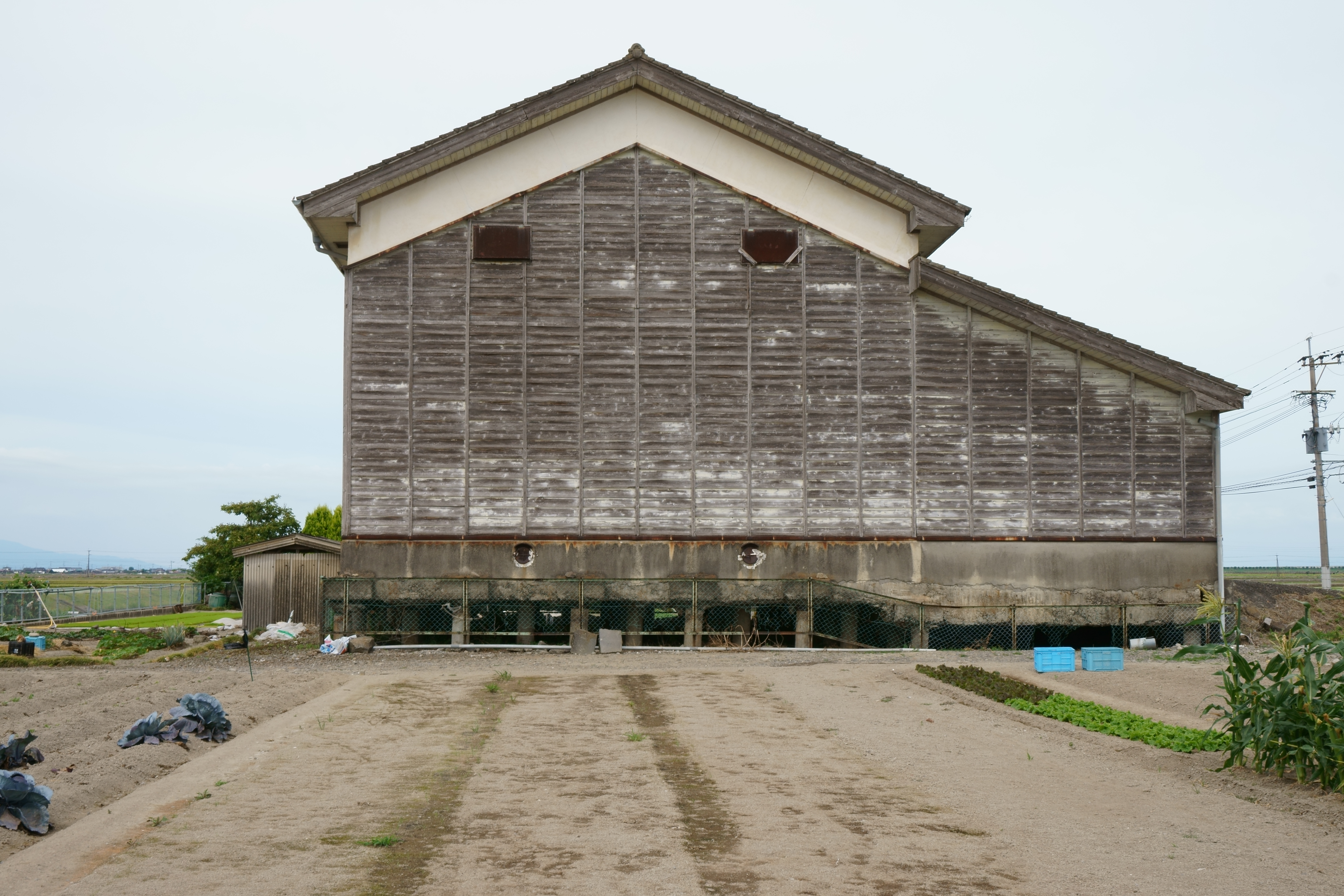 Example of land subsidence: An agricultural warehouse with exposed base piles, that caused by the ground around a warehouse sank about 1.2 metres (3.9 ft) from 1966 to 2004. This is in Shintaku, Shiroishi town, Saga prefecture, Japan.